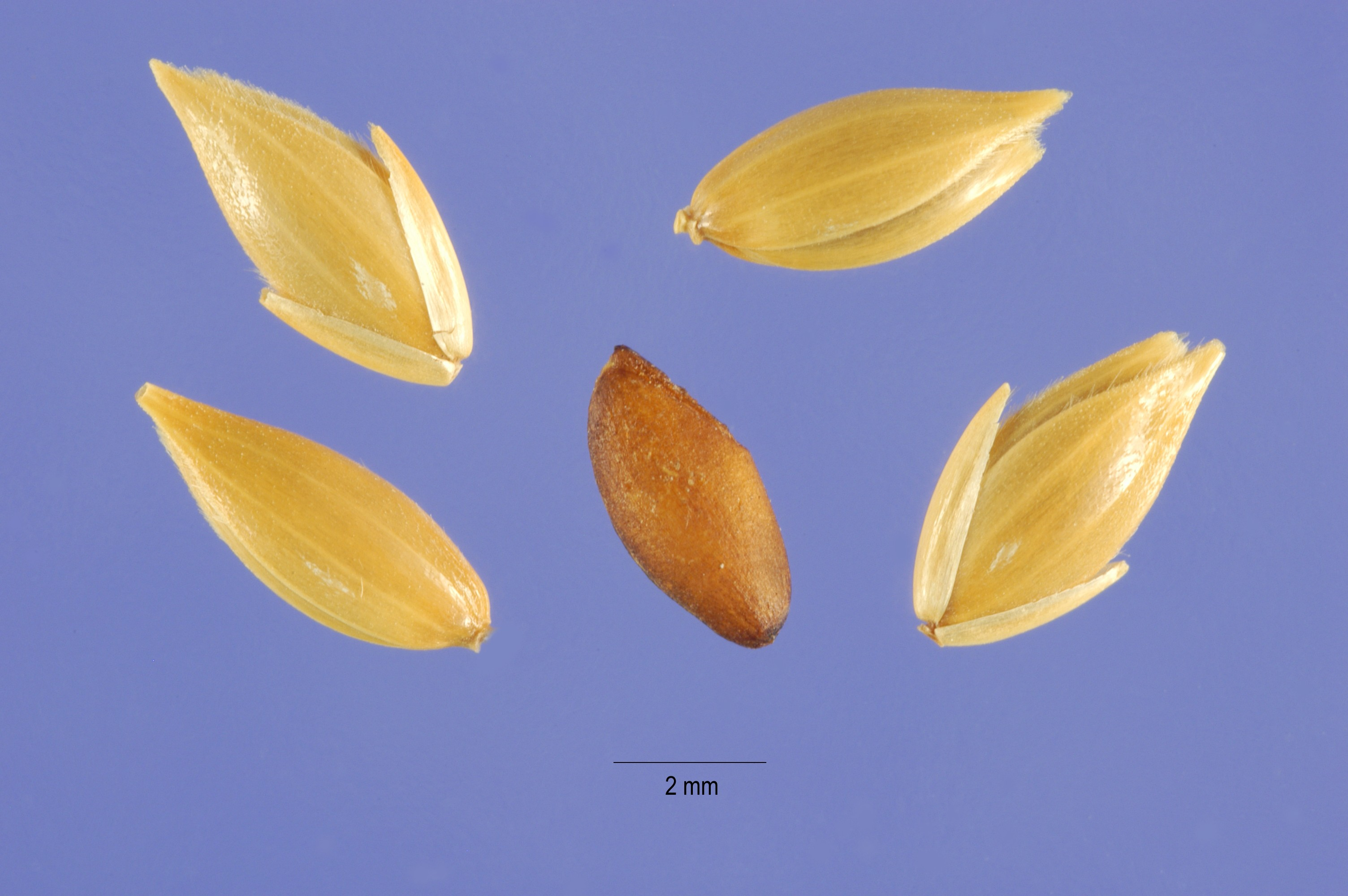 Photo showin the seeds of Phalaris canariensis L. (annual canarygrass).